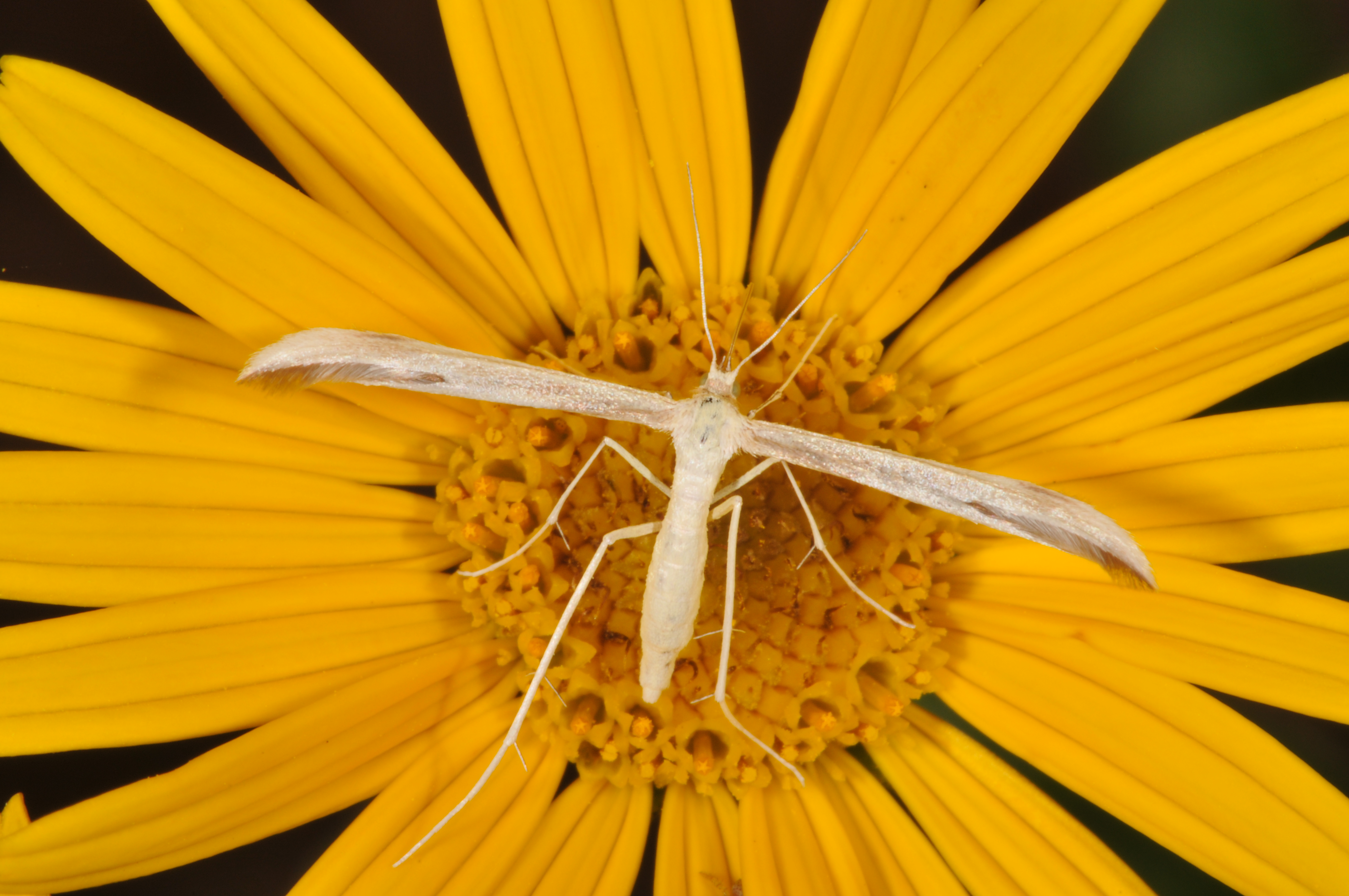 Unidentified Pterophoridae, Croatia, Istriea, Učka